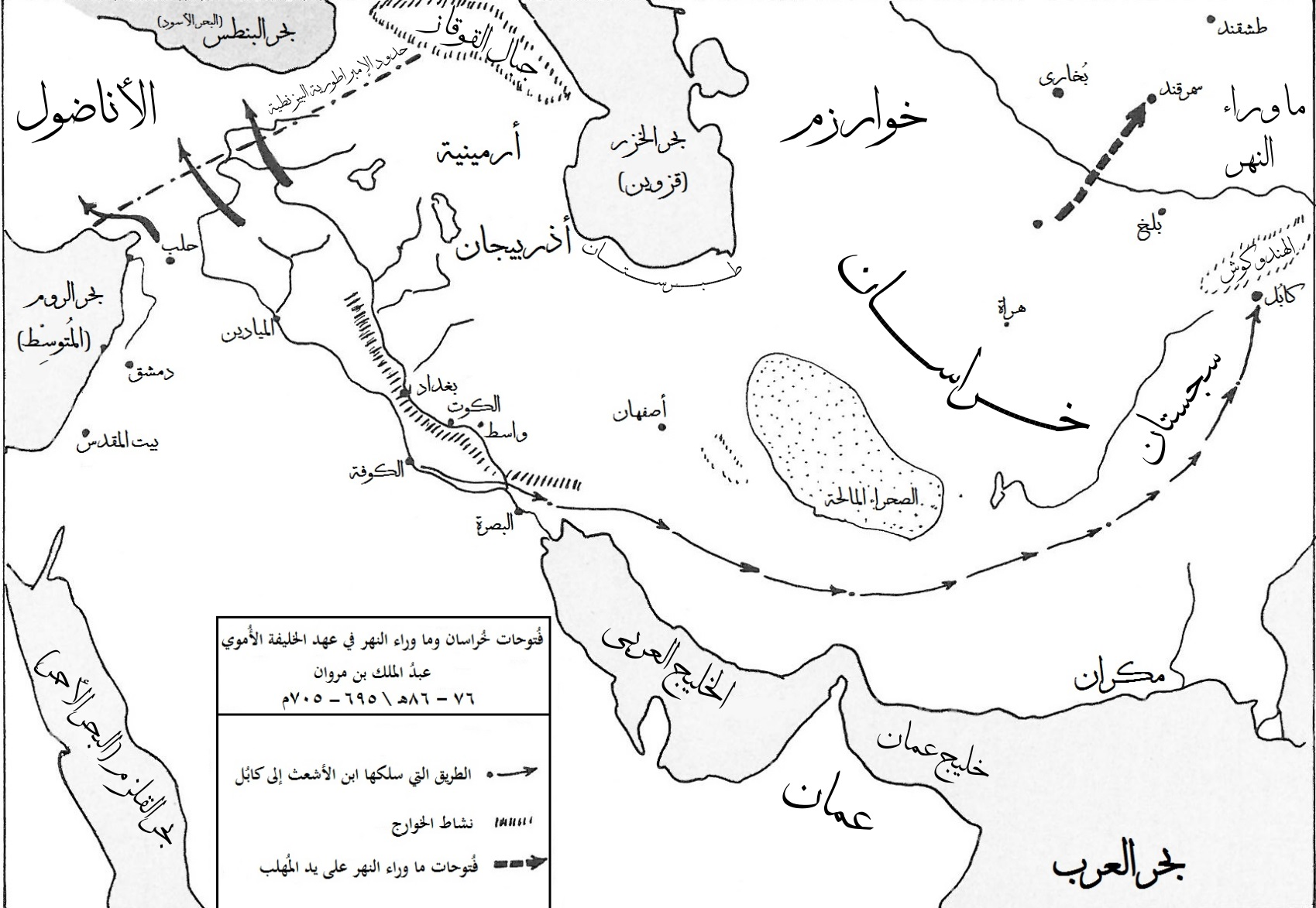 Conquests in Khorasan and Transoxiana during the reign of Umayyed Caliph Abd al-Malik ibn Marwan.